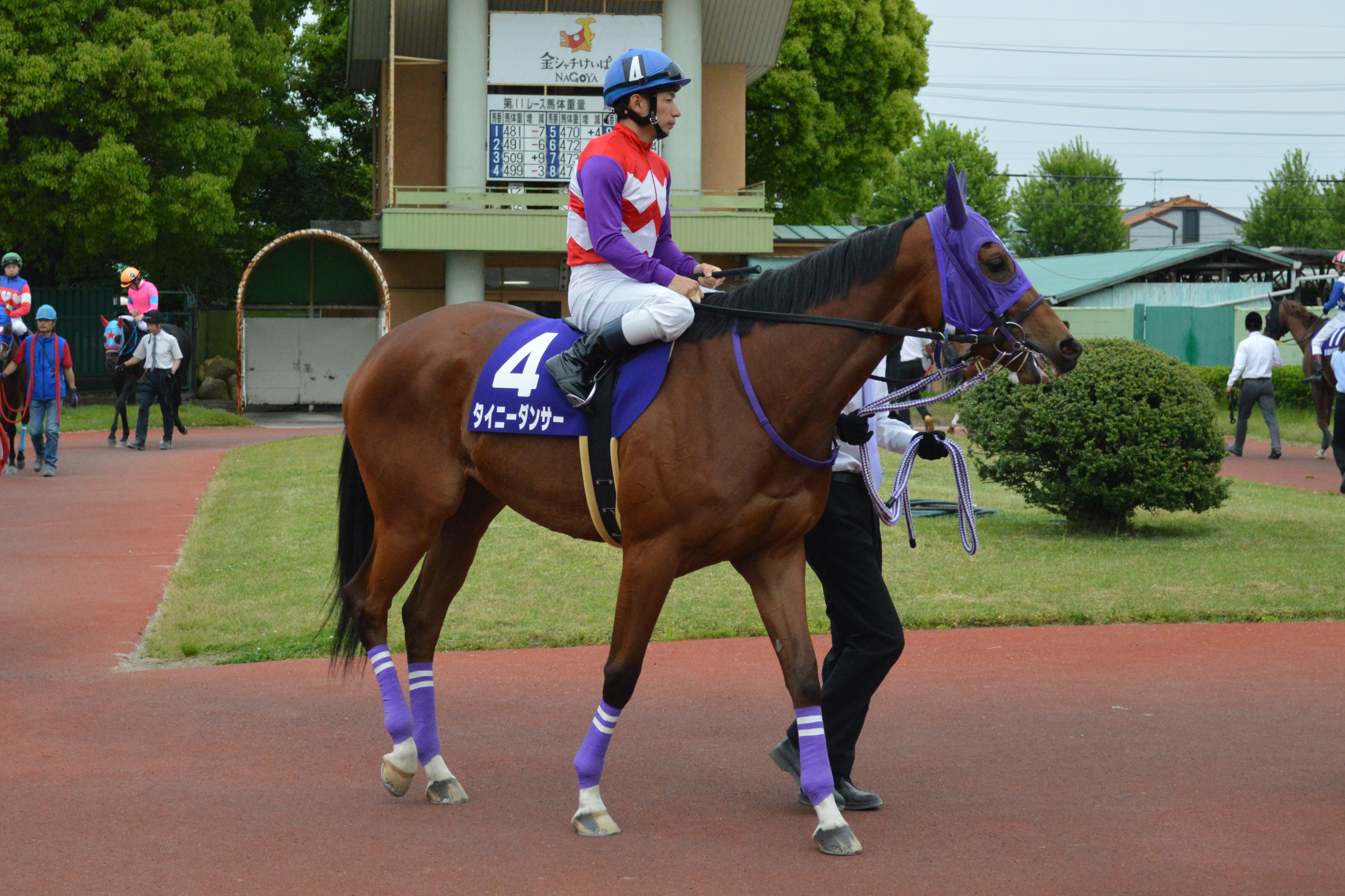 Japanese race horse Tiny Dancer at Nagoya racecourse. Nagoya (JPN) 3 May 2017 Kakitsubata Kinen (Local Grade 3 Handicap) (Dirt) (4yo+) 7f Standard RankHorse NameOddsAgeWgtTrainerJockey1stTokei Tiger (JPN)39/10H68-3Asao SumiyoshiShoichi Kawahara2ndTamuro Miracle (JPN)77/10H58-9Masato NishizonoYuga Kawada3rdChocolat Blanc (JPN)EvensFH58-11Hidekazu AsamiMirco Demuro4thTiny Dancer (JPN)109/10F48-5Keizo ItoHiroyuki Uchida5th - 12th/omission